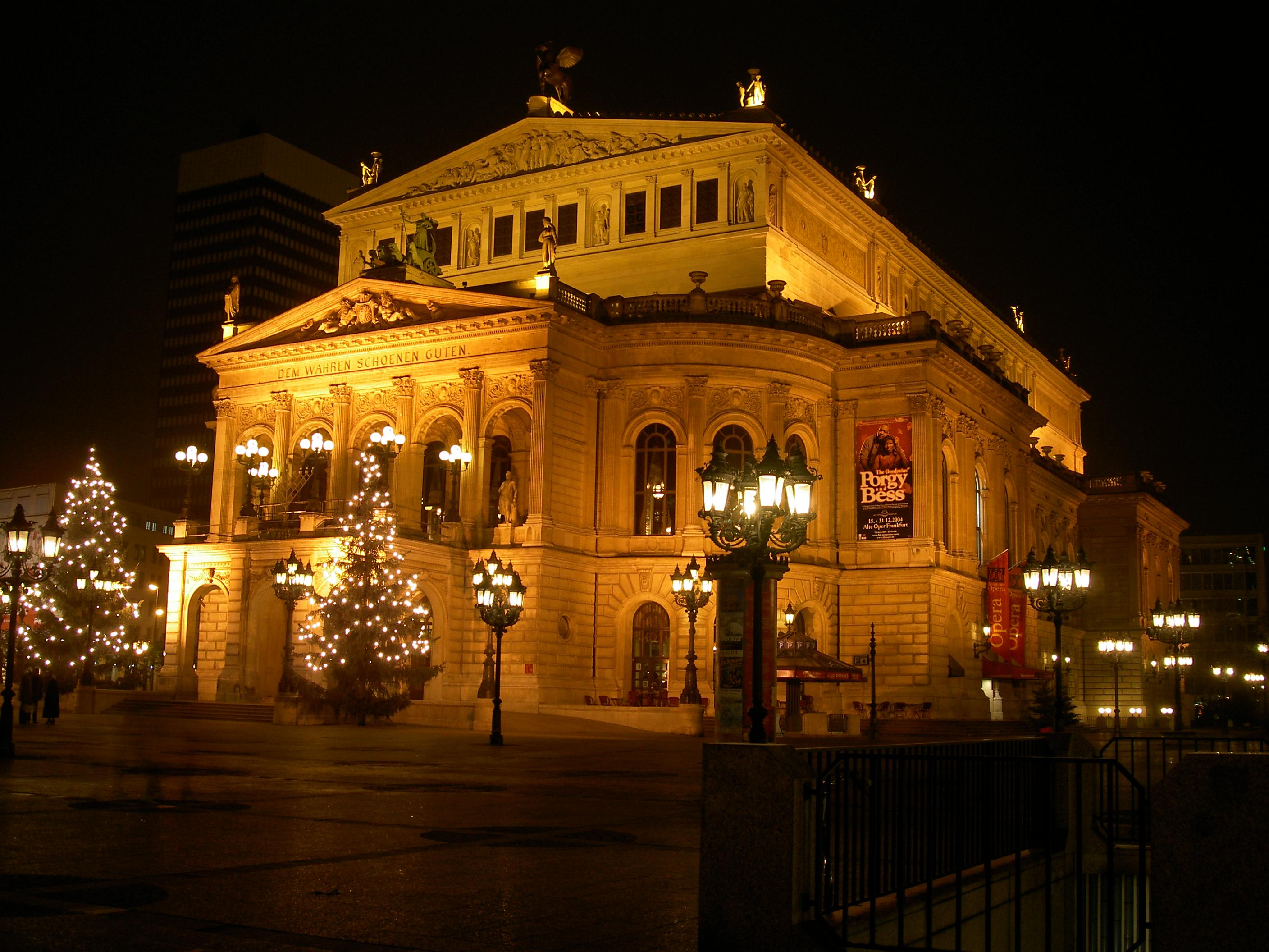 Old Opera House in Frankfurt (Main)